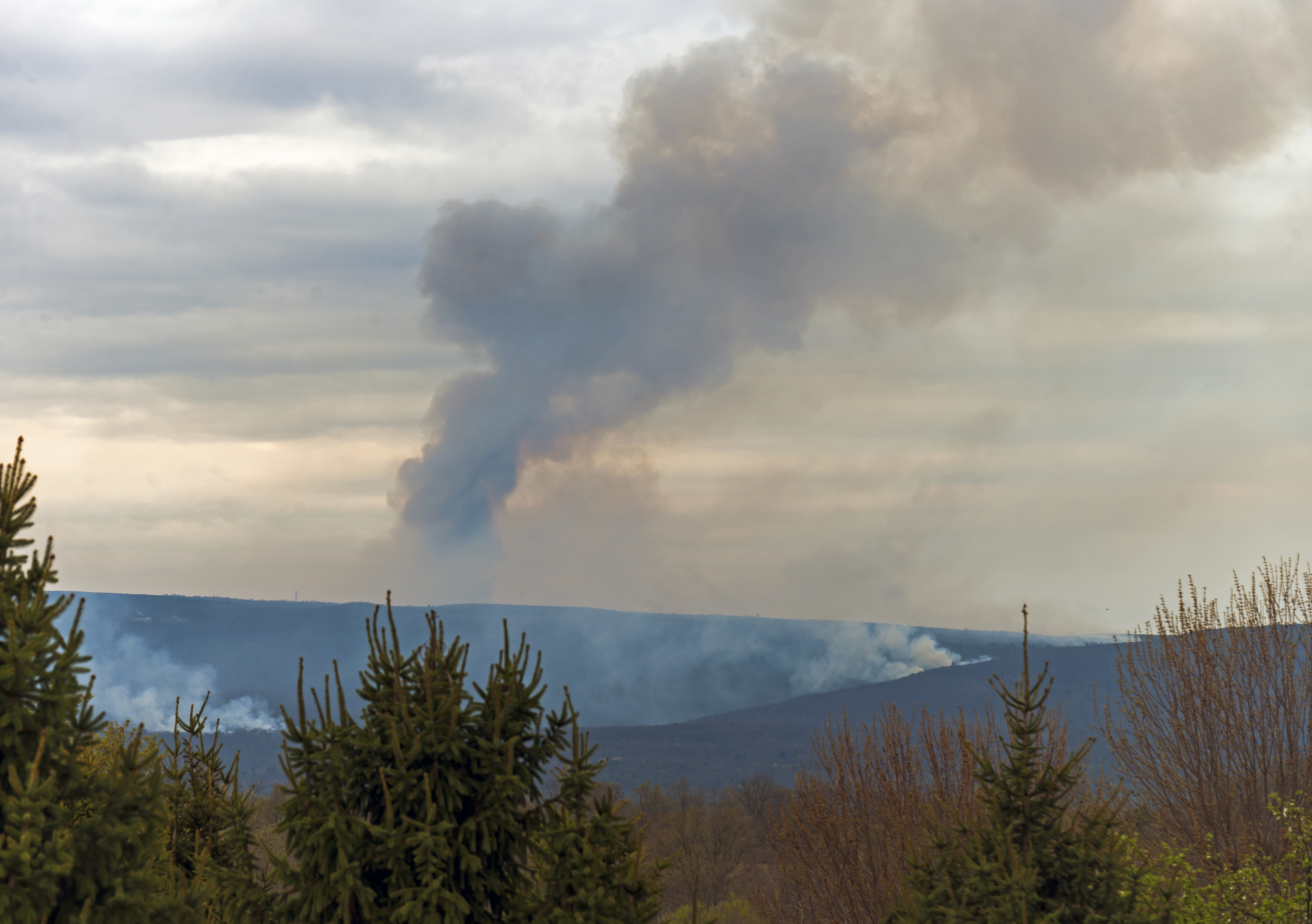 Smoke from an April 2016 wildfire at Sam's Point Preserve near Cragsmoor, NY, USA in the evening sky over the Shawangunk Ridge, seen from off Chapel Court in the Town of Crawford